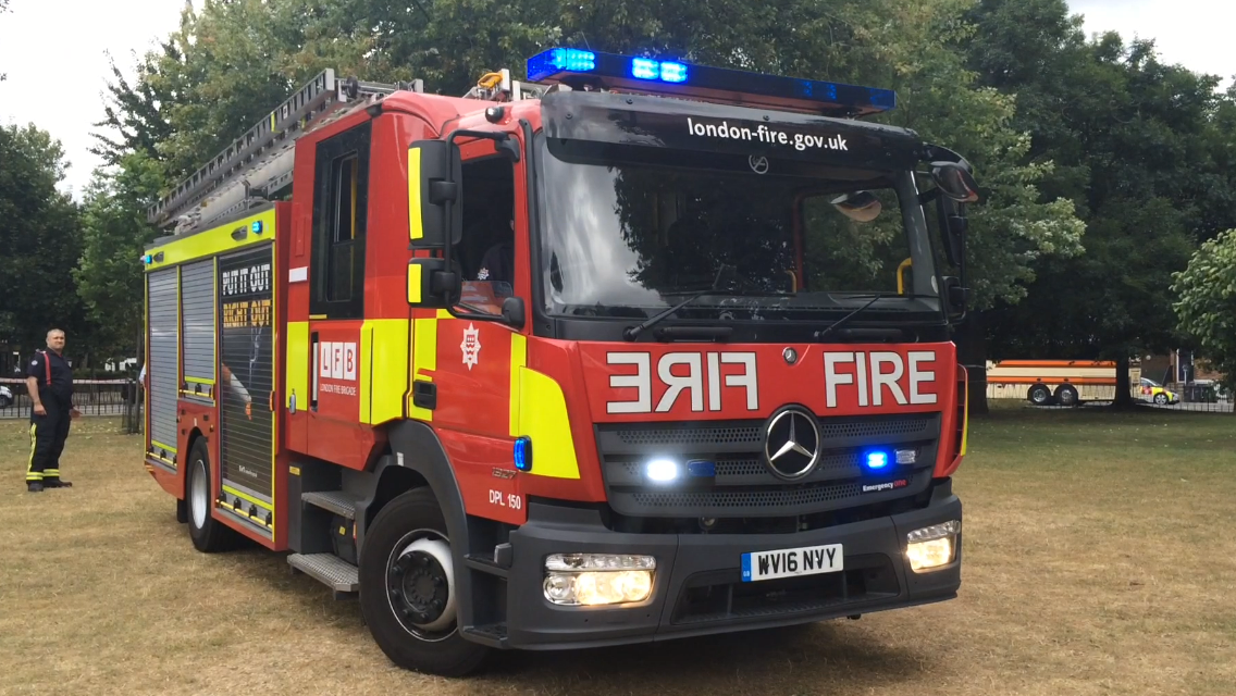 One of the LFB's New Appliances